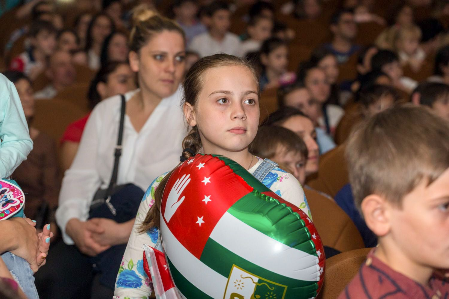 Торжественное собрание по случаю 24-й годовщины независимости Абхазии